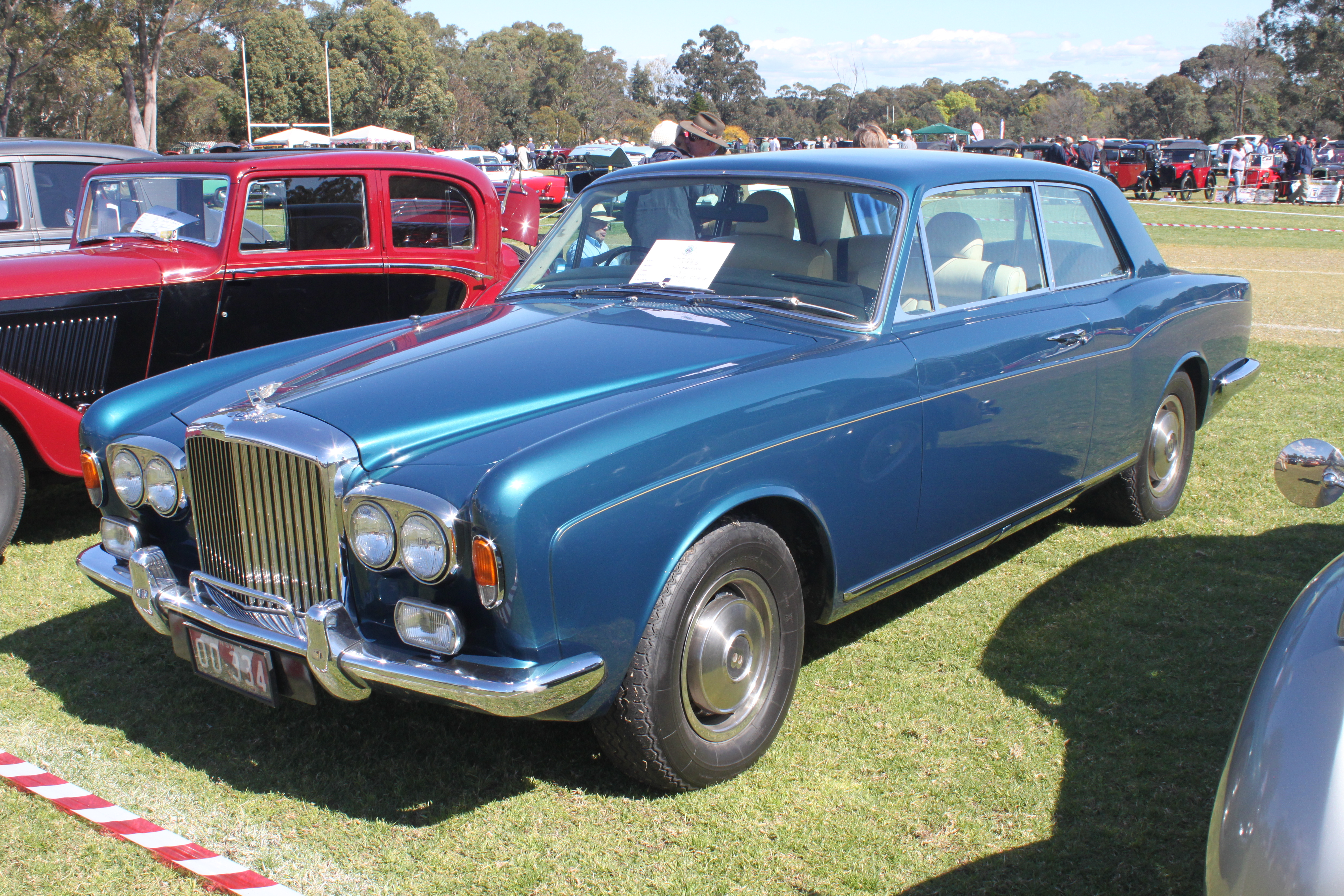 Bentley Corniche. All British Day , Kings School, North Parramatta, NSW AUgust 2015